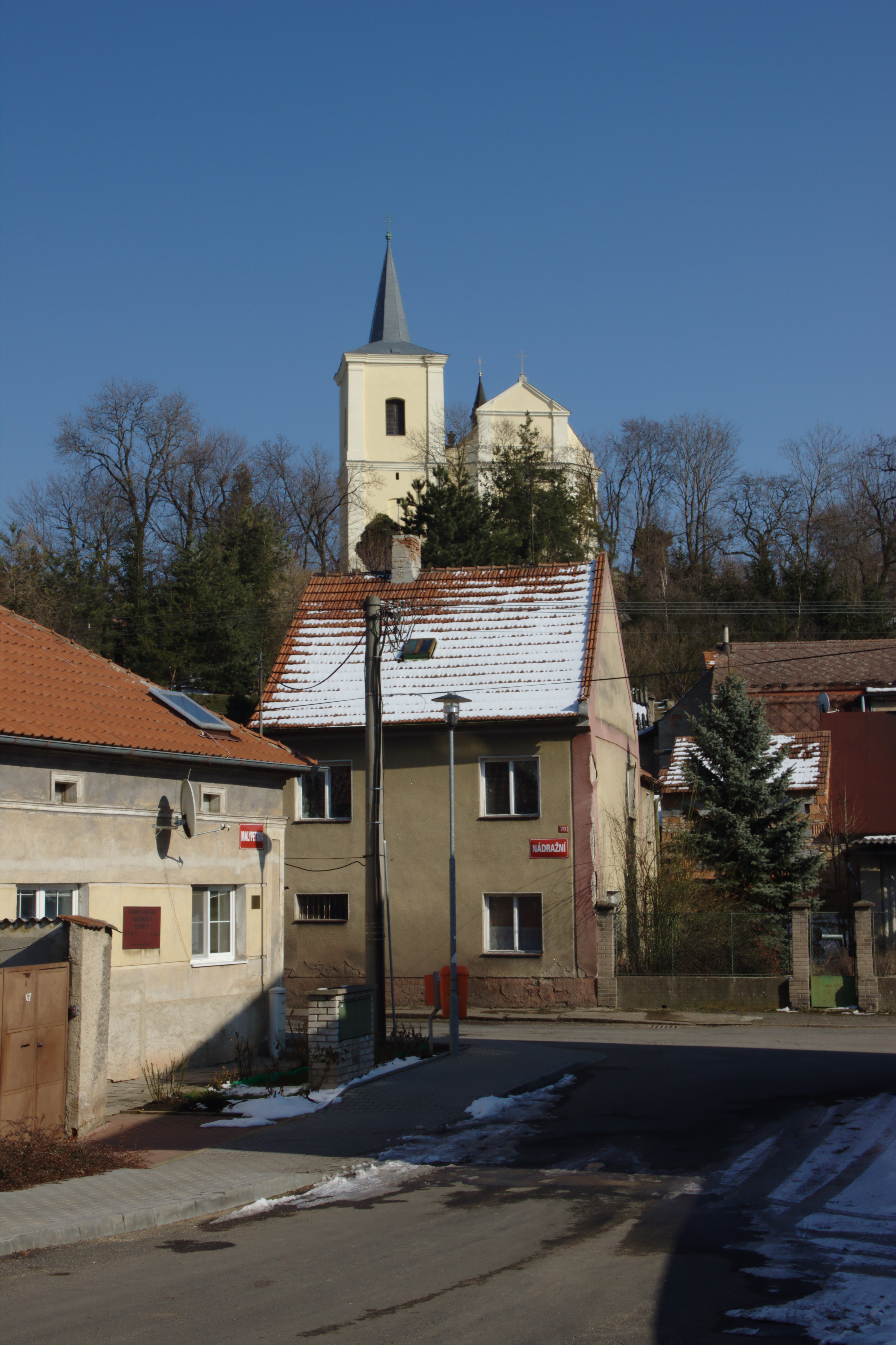 Main church in Klobuky, Central Bohemian Region, CZ